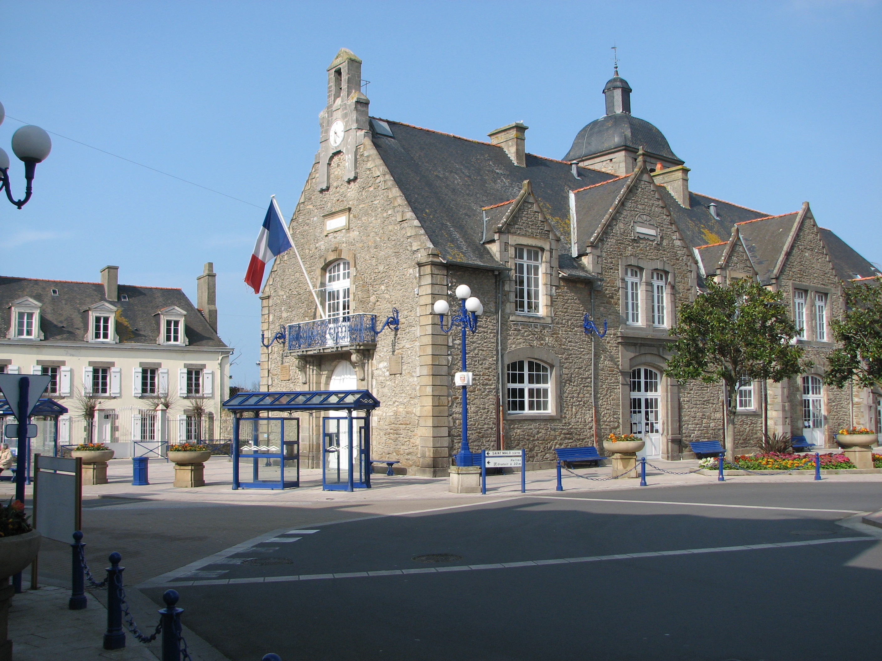 Former Paramé City Hall (now part of Saint-Malo), Georges Coudray plaza